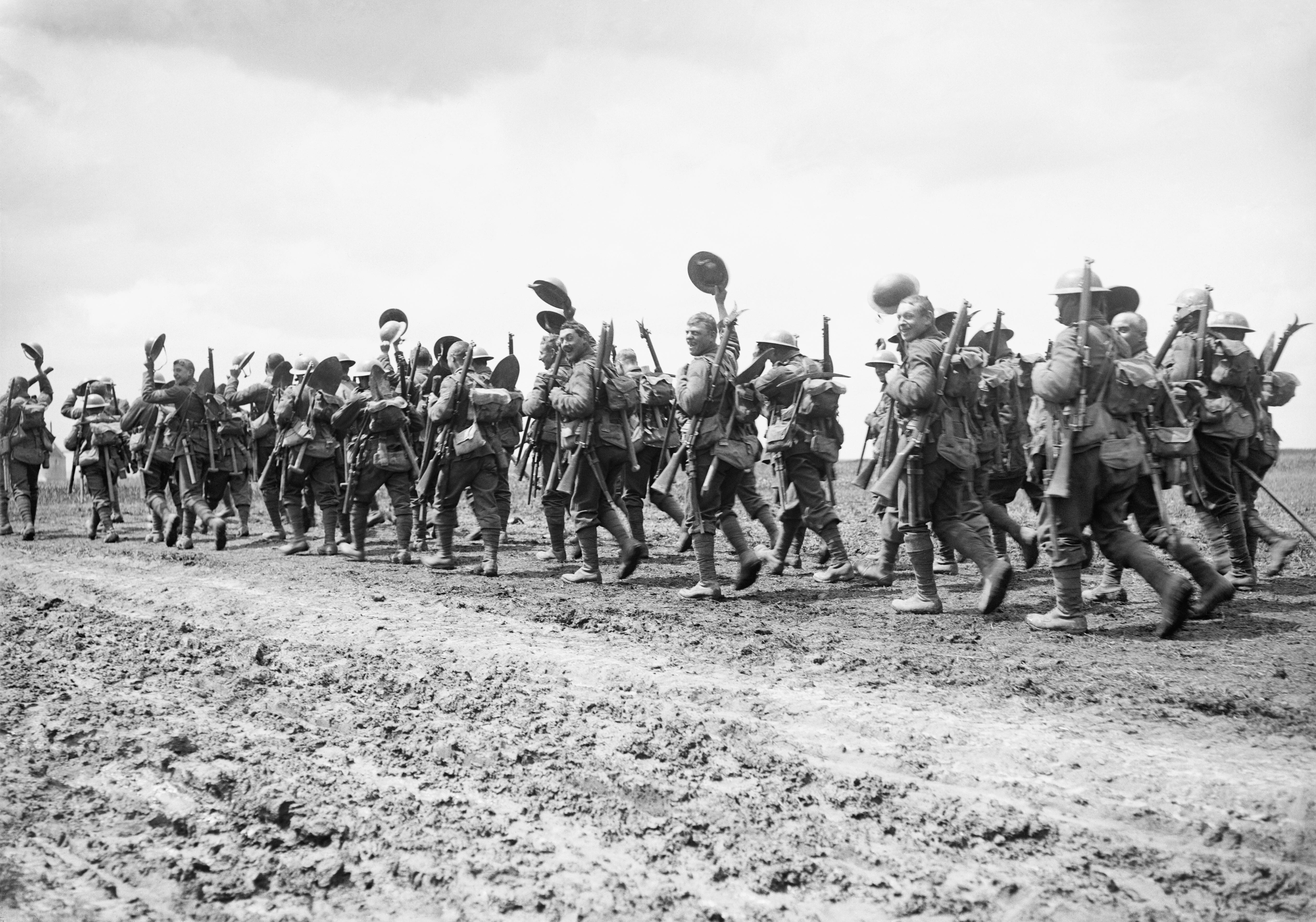 Men of the Wiltshire Regiment waving their helmets as they march along the Acheux road to the trenches.